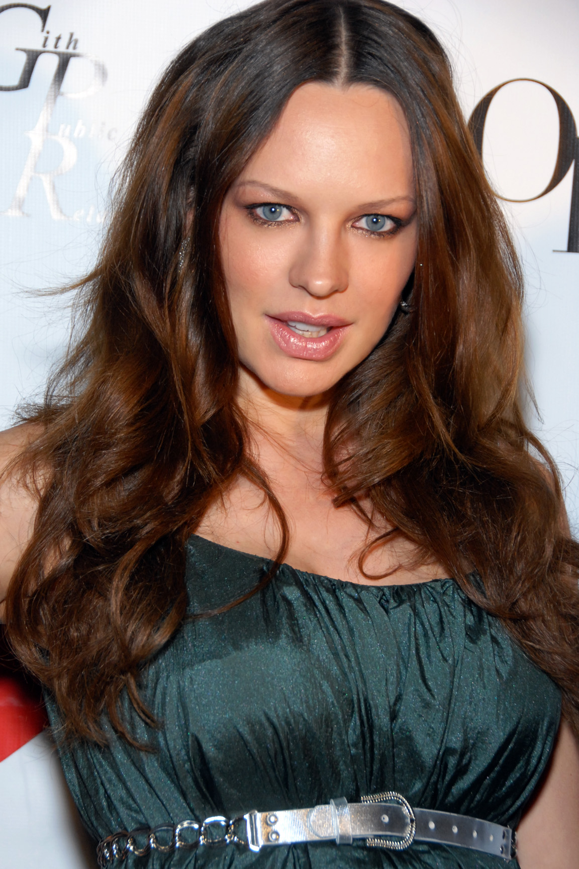 Natasha Alam attending her Birthday Party at Opera/Crimson, Hollywood, CA on March 7, 2009 - Photo by Glenn Francis of